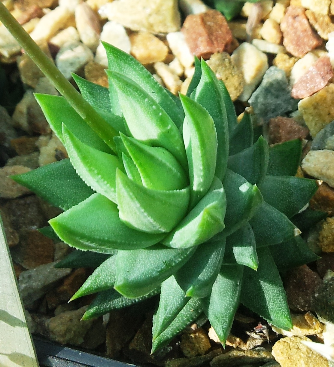 Haworthiopsis glauca (syn. Haworthia glauca)